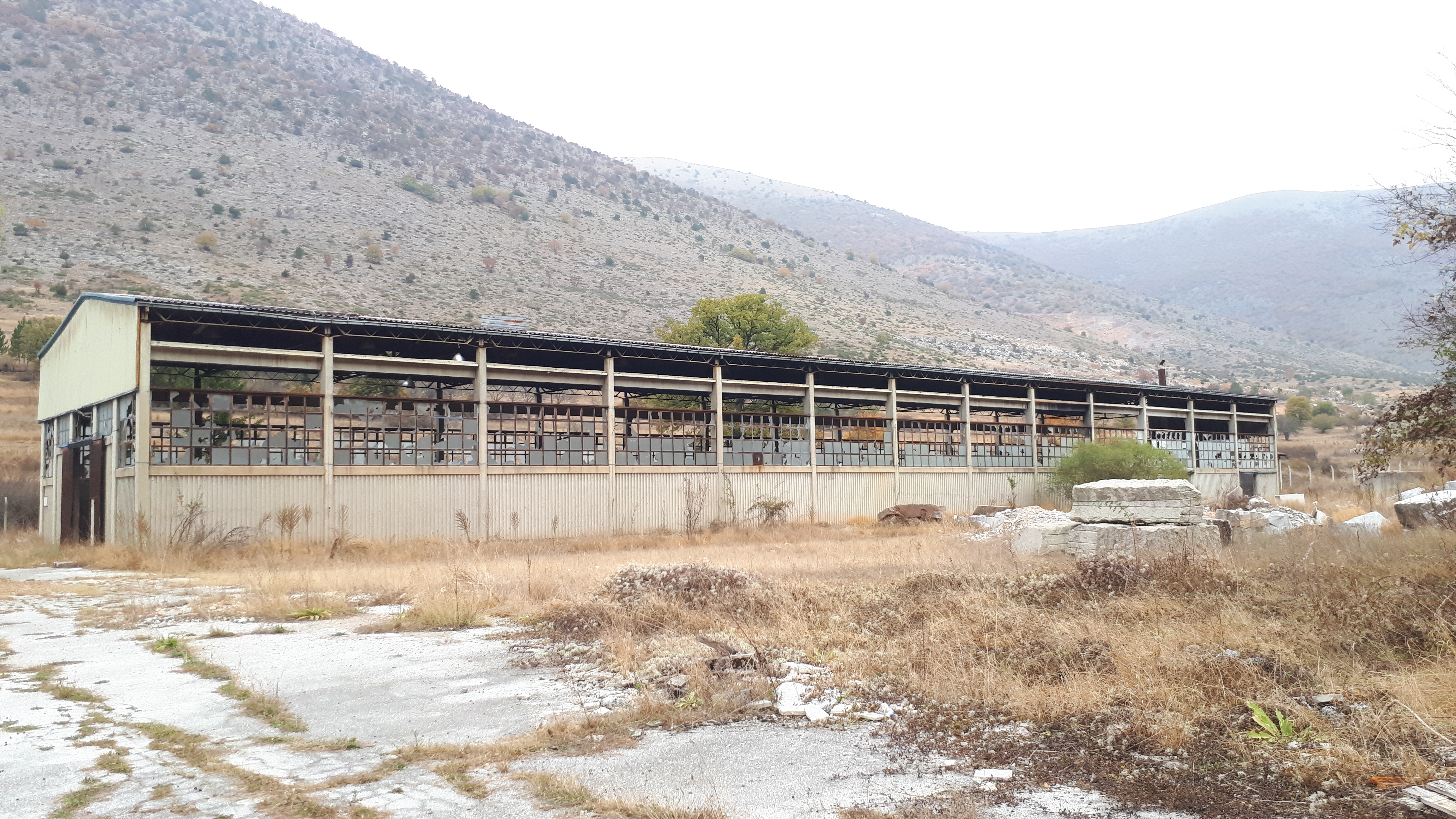 Old factory in the village Cer